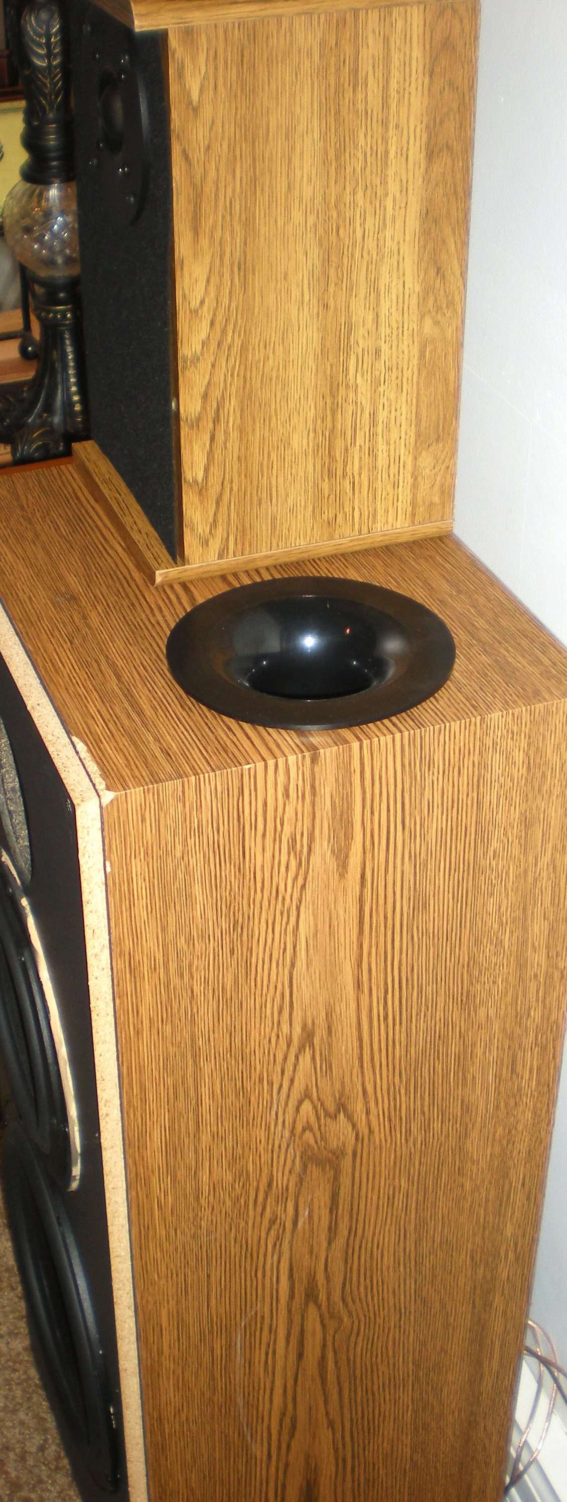 Precision Port 2" Flared Port Tube Kit installed for a DIY audio project in the top of a vintage S10 Polk speaker cabinet